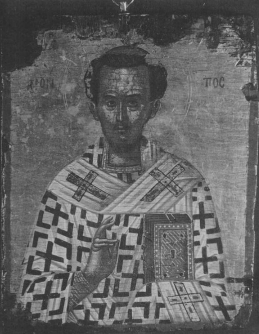 Icon of St Leontios, abbot and patriarch. Treasury of the Monastery of St John, Patmos